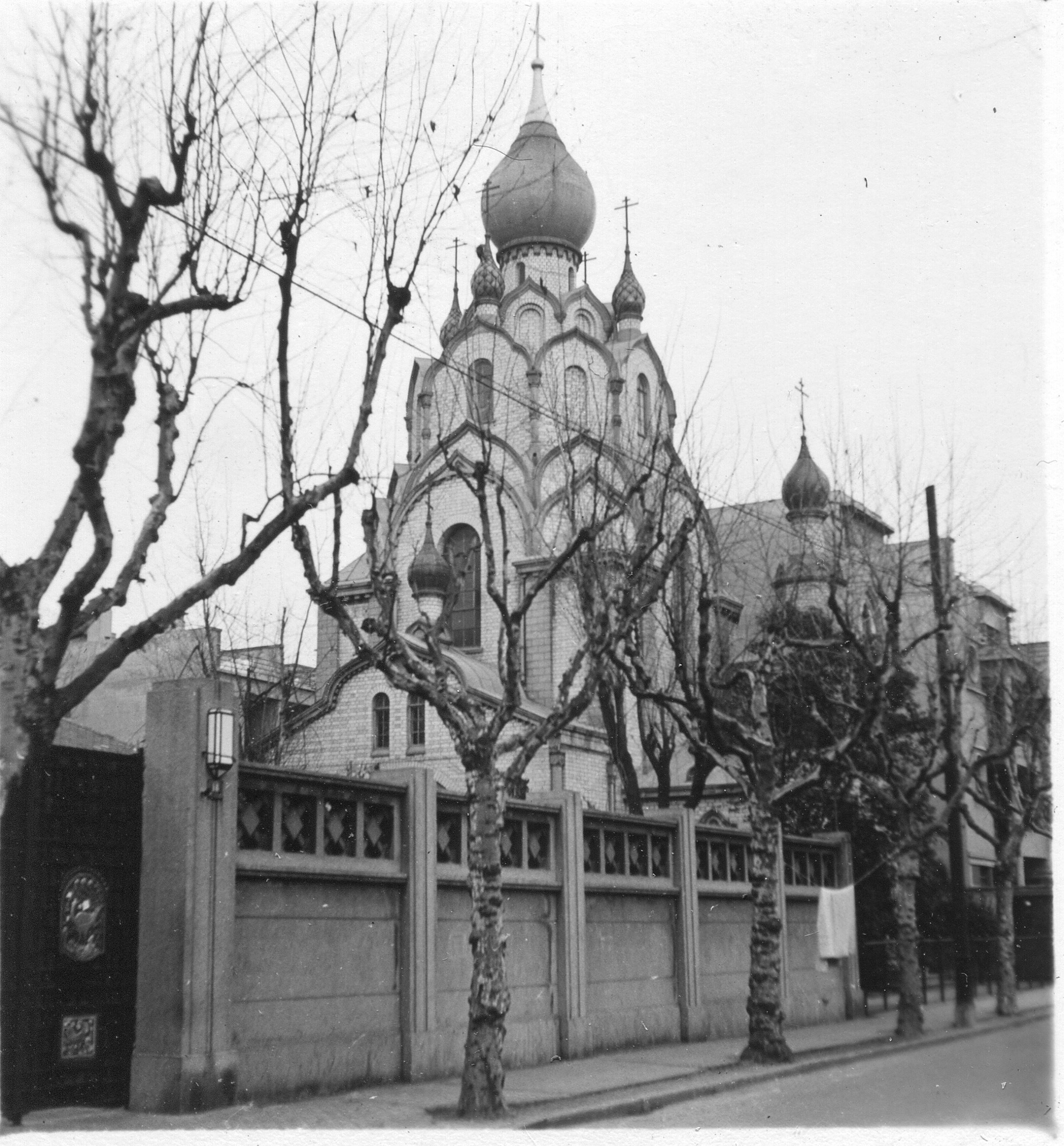 Church of St. Nicholas the Wonderworker in Shanghai